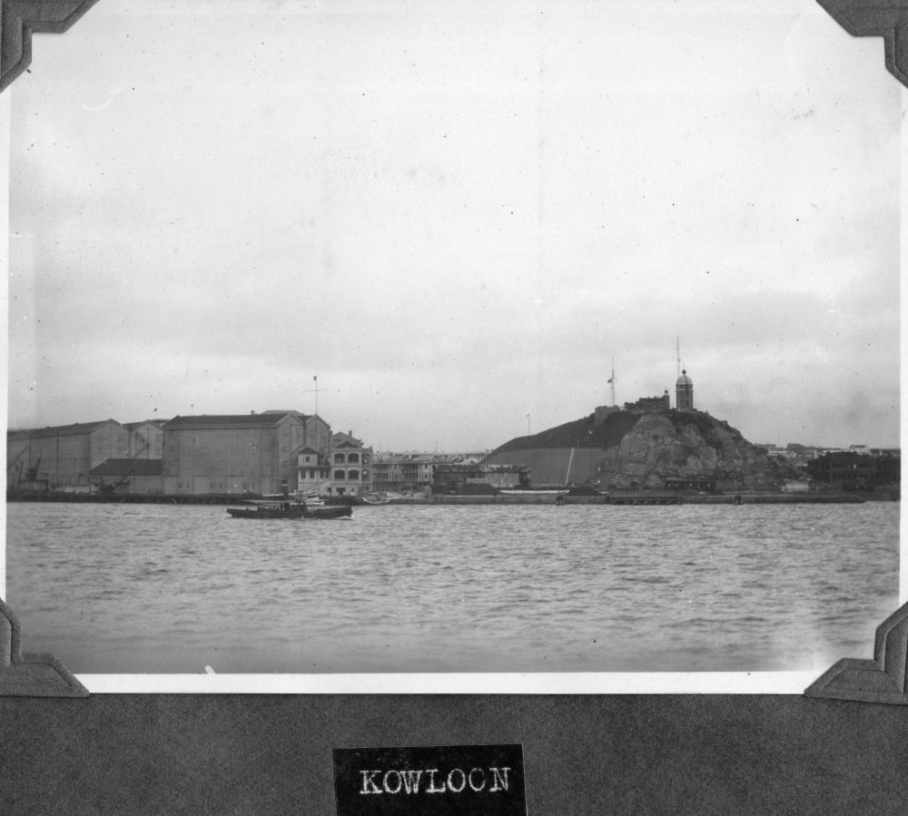 PictionID:38278635 - Catalog:AL-135A 161 - Filename:AL-135A 161.tif - This image is from a photo album donated to the Museum by JL Highfill, who was a photographer for the Navy before and during the Second World War-----------PLEASE TAG this image with any information you know about it, so that we can permanently store this data with the original image file in our Digital Asset Management System.-----------------SOURCE INSTITUTION: San Diego Air and Space Museum Archive